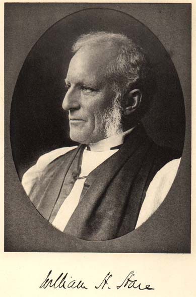 Missionary Bishop of the Niobara, then South Dakota